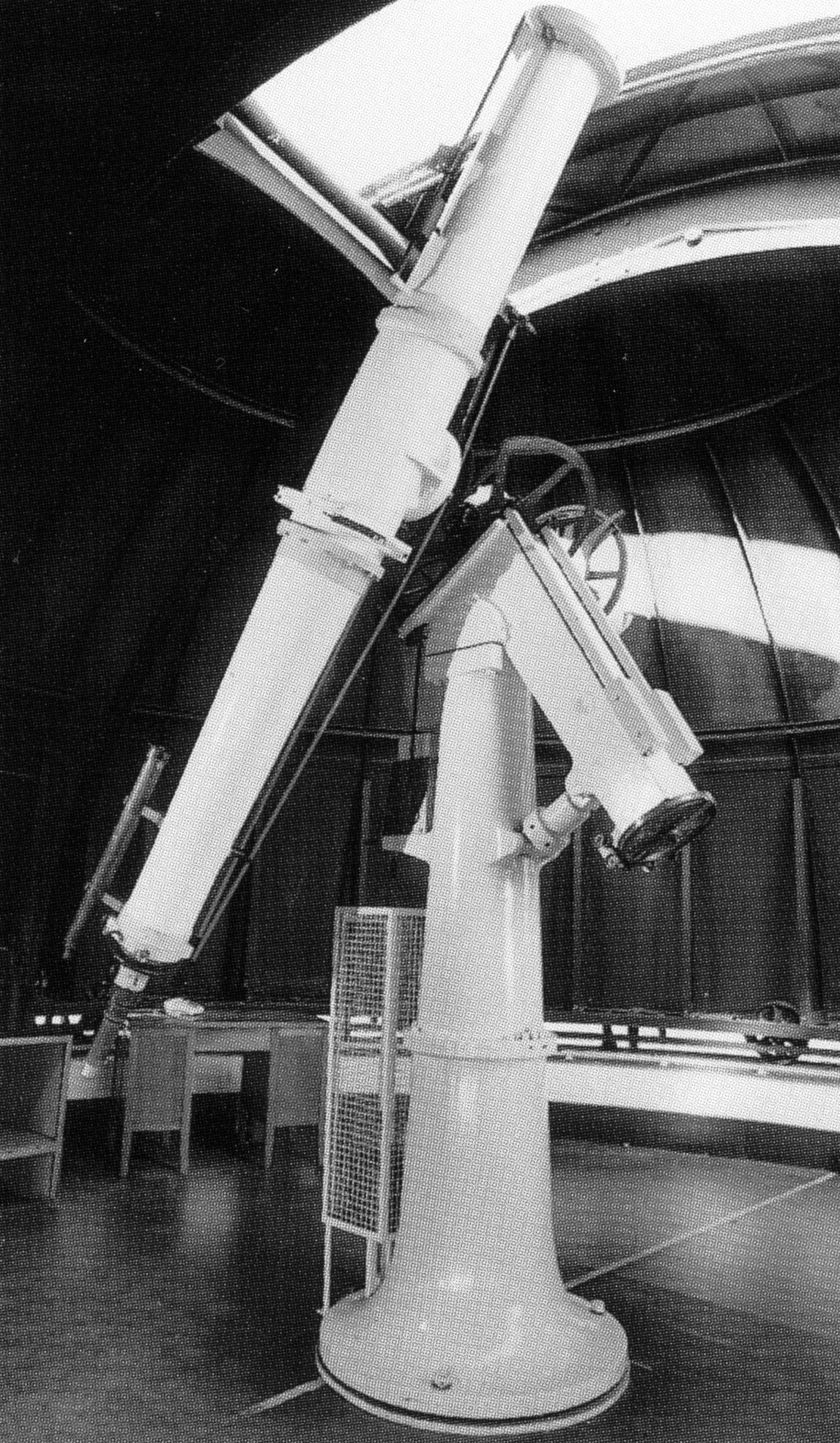 The 10-inch (250 mm) Cooke Refractor telescope -Mills_Observatory